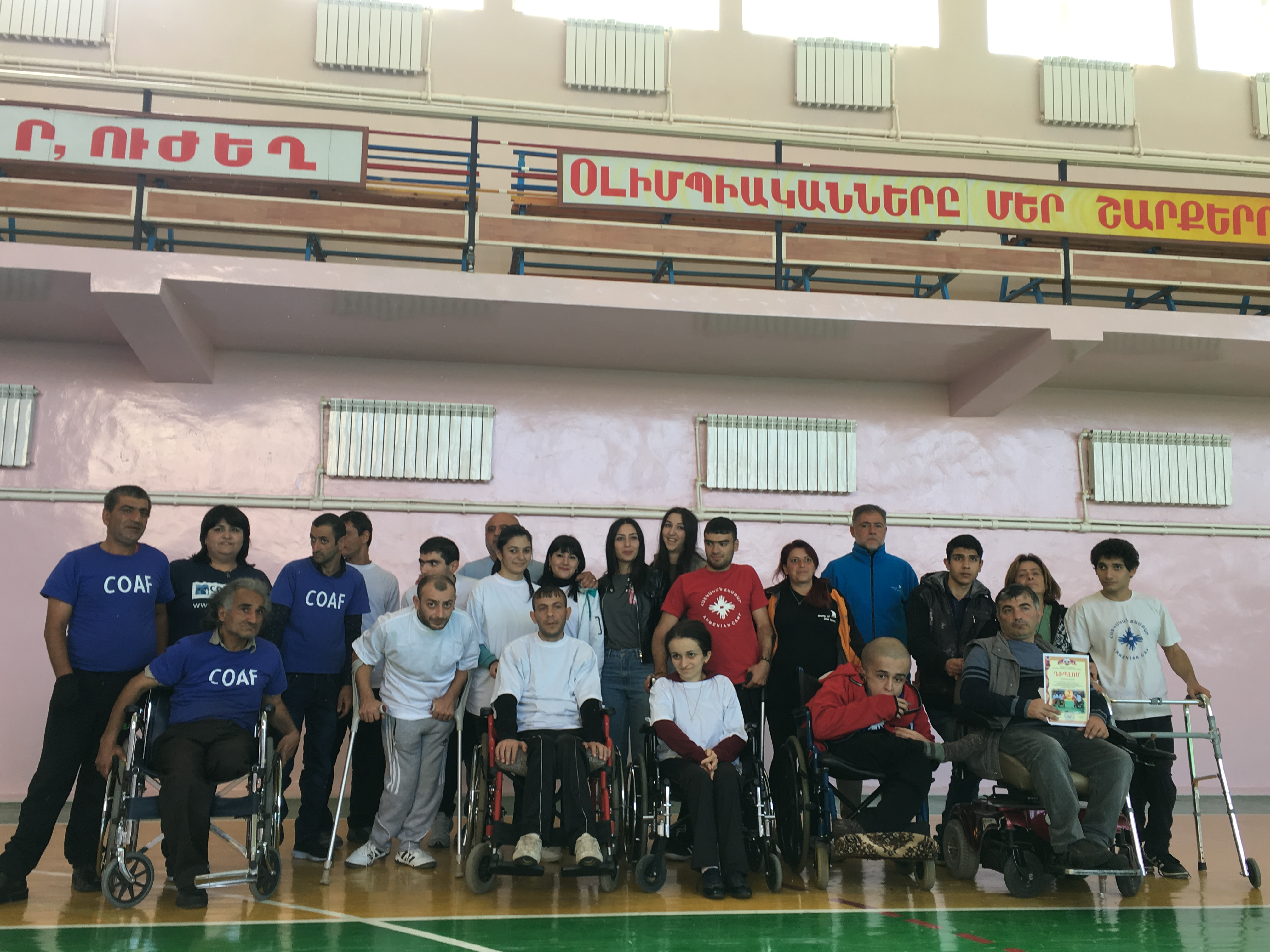 Բոչիայի Բաց առաջնություն Արցախ